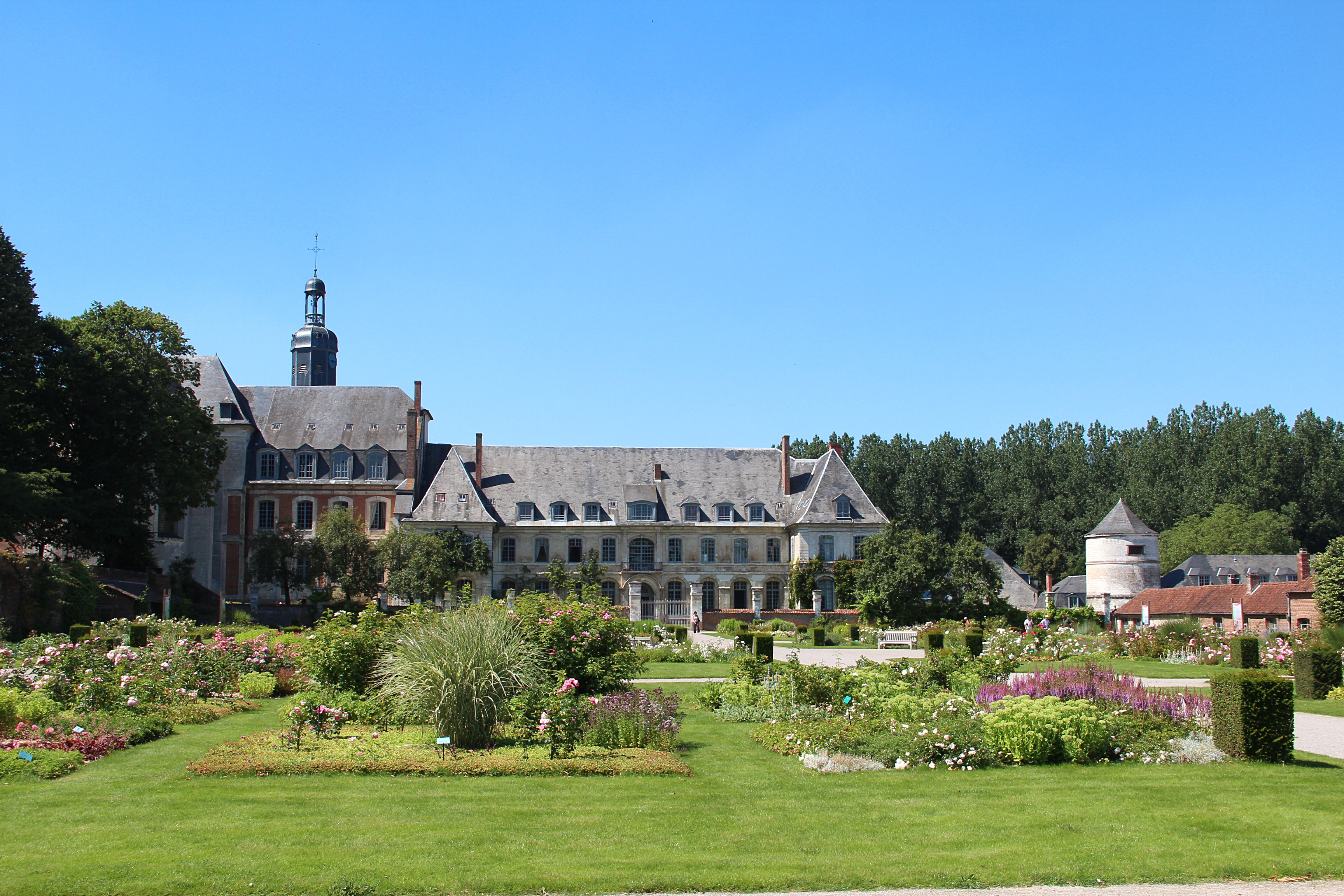 Argoules (Somme) - France, chapel, southeast wing, rose garden and dovecote of the former Valloires Abbey| (12/17th centuries).